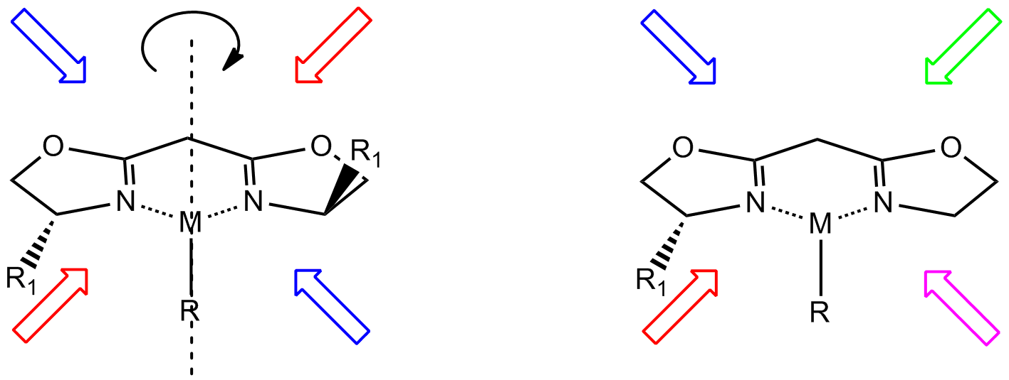 C2-rotational symmetry in bisoxazoline ligands